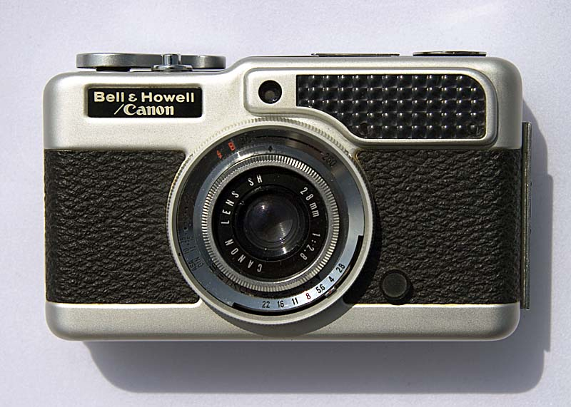 Canon / Bell & Howell Demi half frame camera